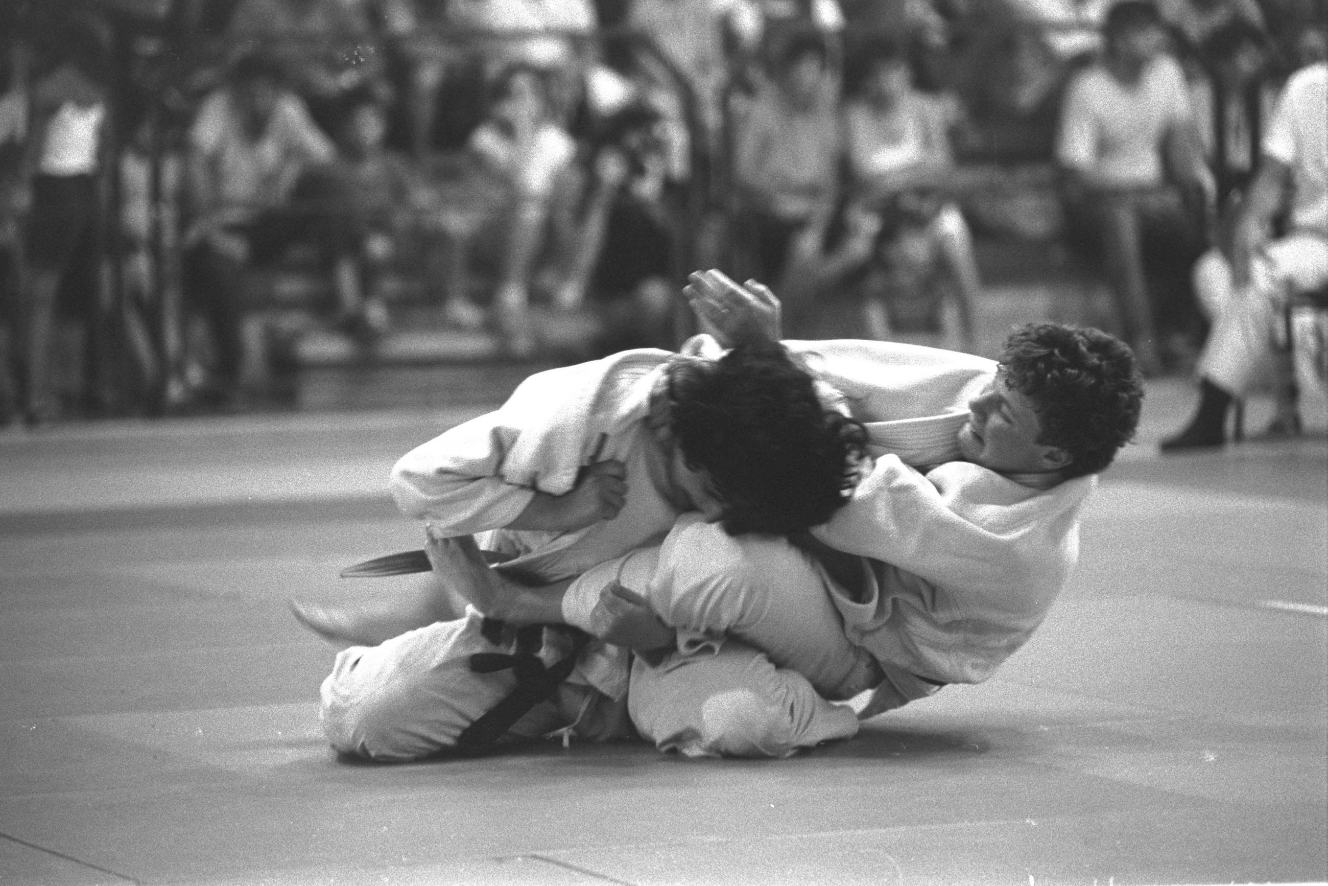 The 12th Maccabia Games in Tel Aviv. In this photo, a Judo competition at the Ussishkin Hall.